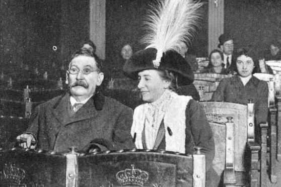 Sofía Casanova and Benito Pérez Galdós during a stage rehearsal of Casanova's play "La Madeja".